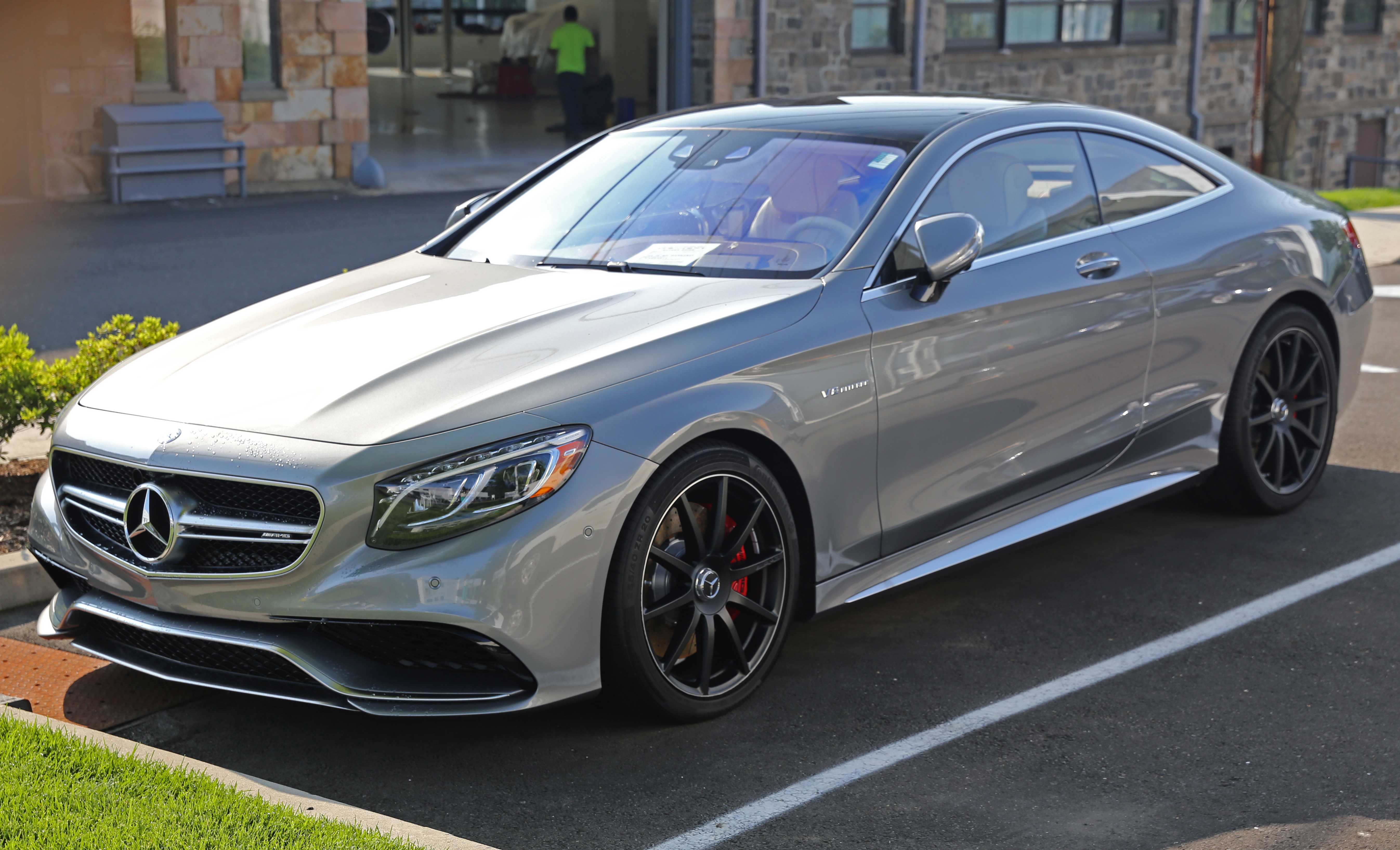 2015 Mercedes-Benz S63 AMG 4Matic Coupé in Palladium Silver Metallic. Forged ten-spoke AMG 20" alloys, and a pile of extras larger than I have any interest in recounting here.